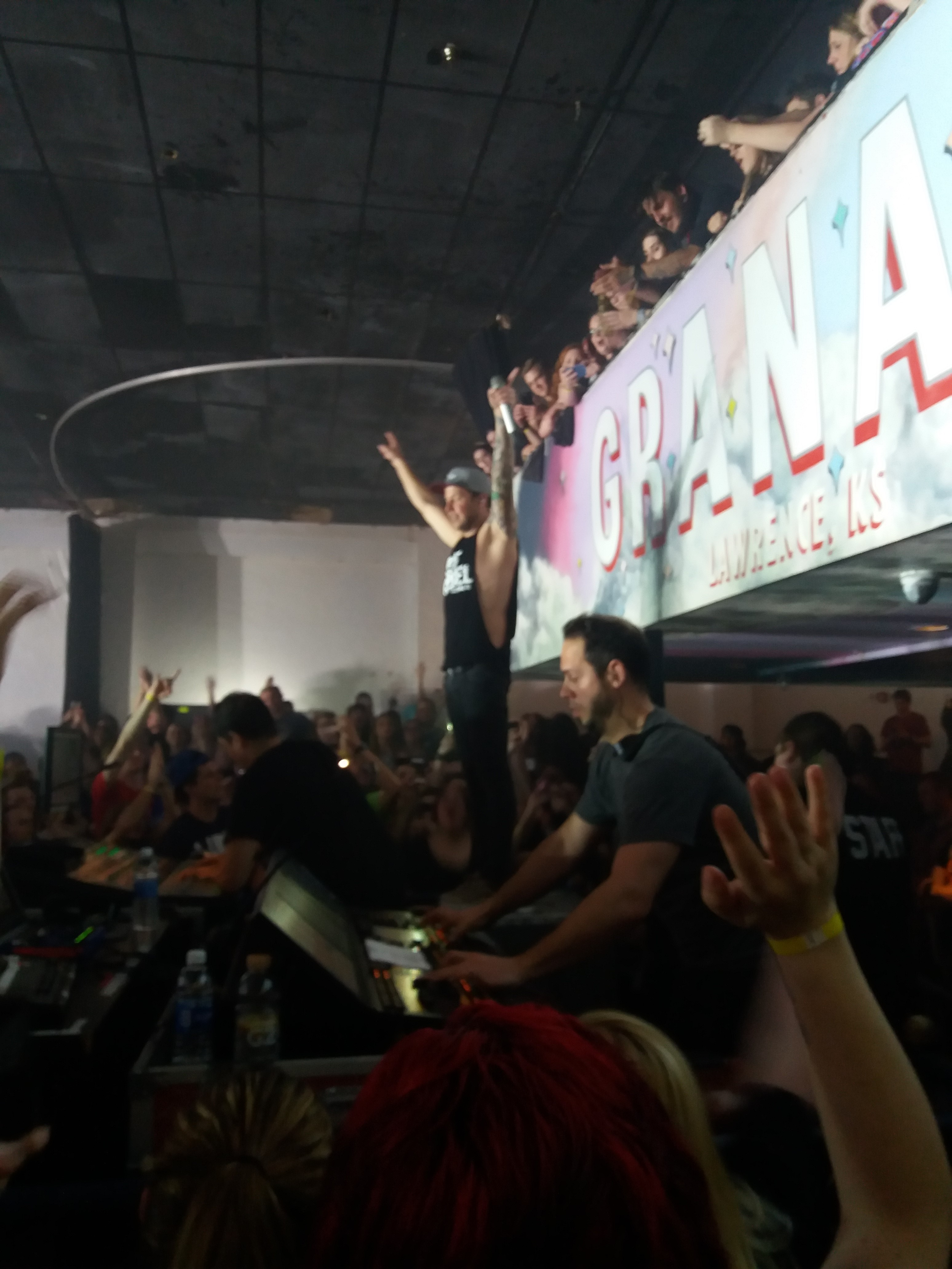 Simple Plan playing at the Granada Theater in Lawrence, Kansas on 4-8-17